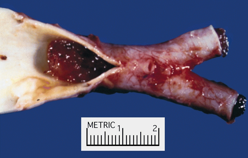 HEART-GREAT VESSELS: MYXOMA EMBOLUS: ILIAC BIFURCATION An embolized fragment of the tumor.